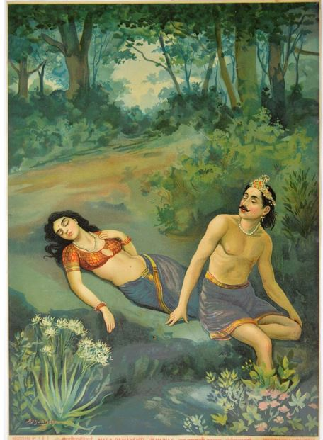 Nala Damyanti Vanvas by M.V. Dhurandhar Rs. 35,000 (inclusive of taxes) Request Information Request A Call Back Details Size: 20 x 14 inches Medium: Oleograph Press: Ravi Varma Press